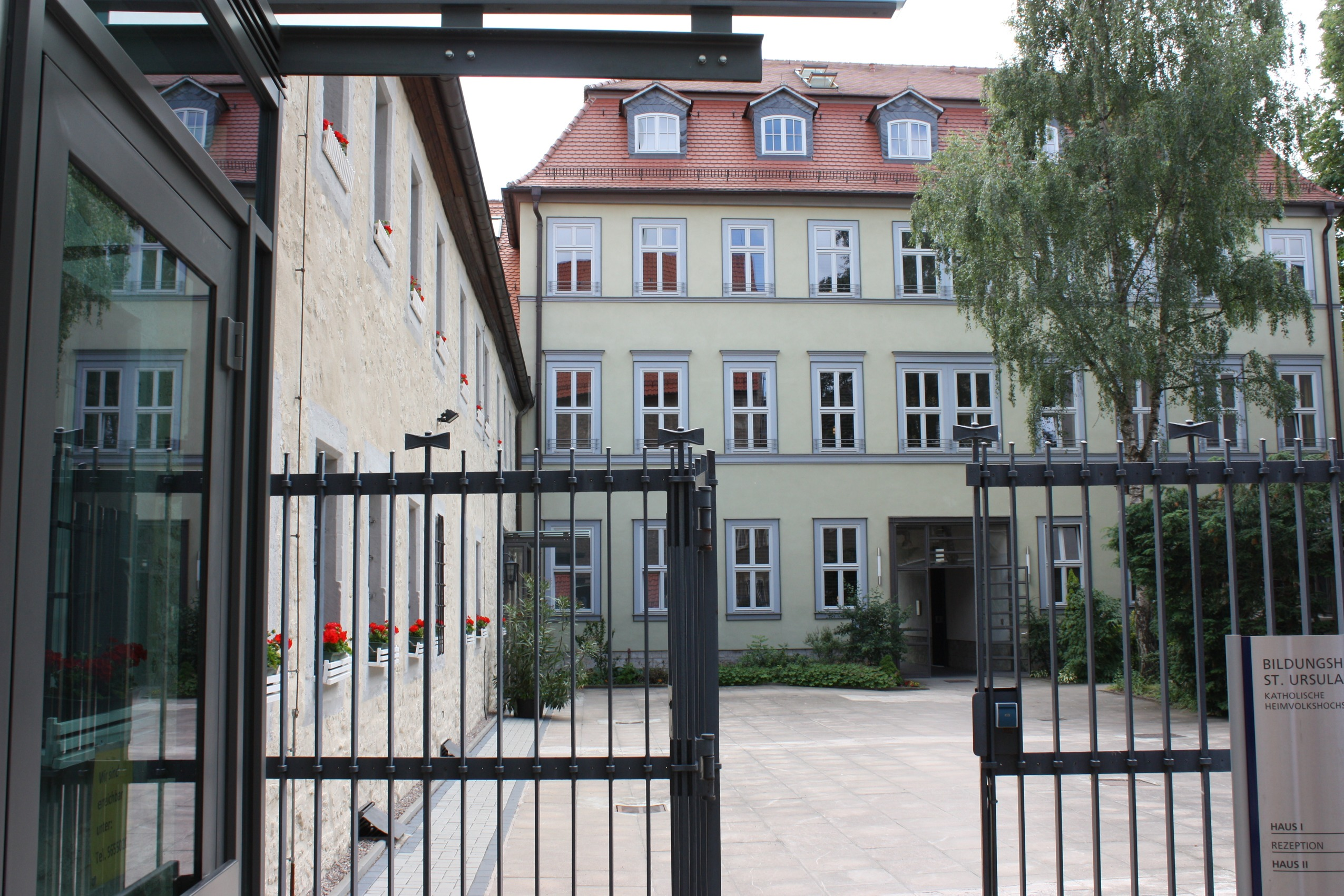 Erfurt, Anger 5, Blick in den Innenhof des Ursulinenklosters. This is a photograph of an architectural monument. 5